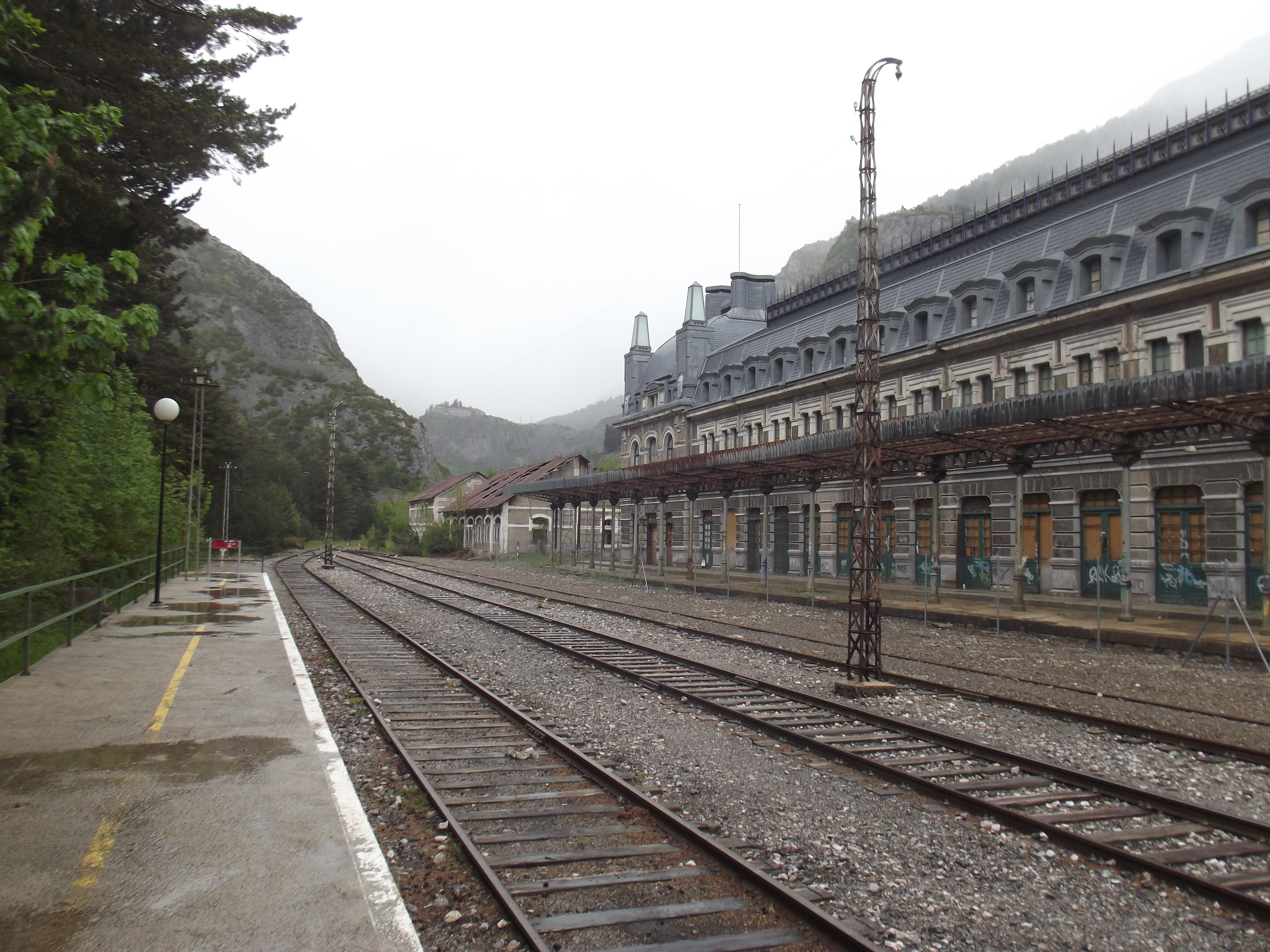 Het verlaten internationaal station van Canfranc in 2015